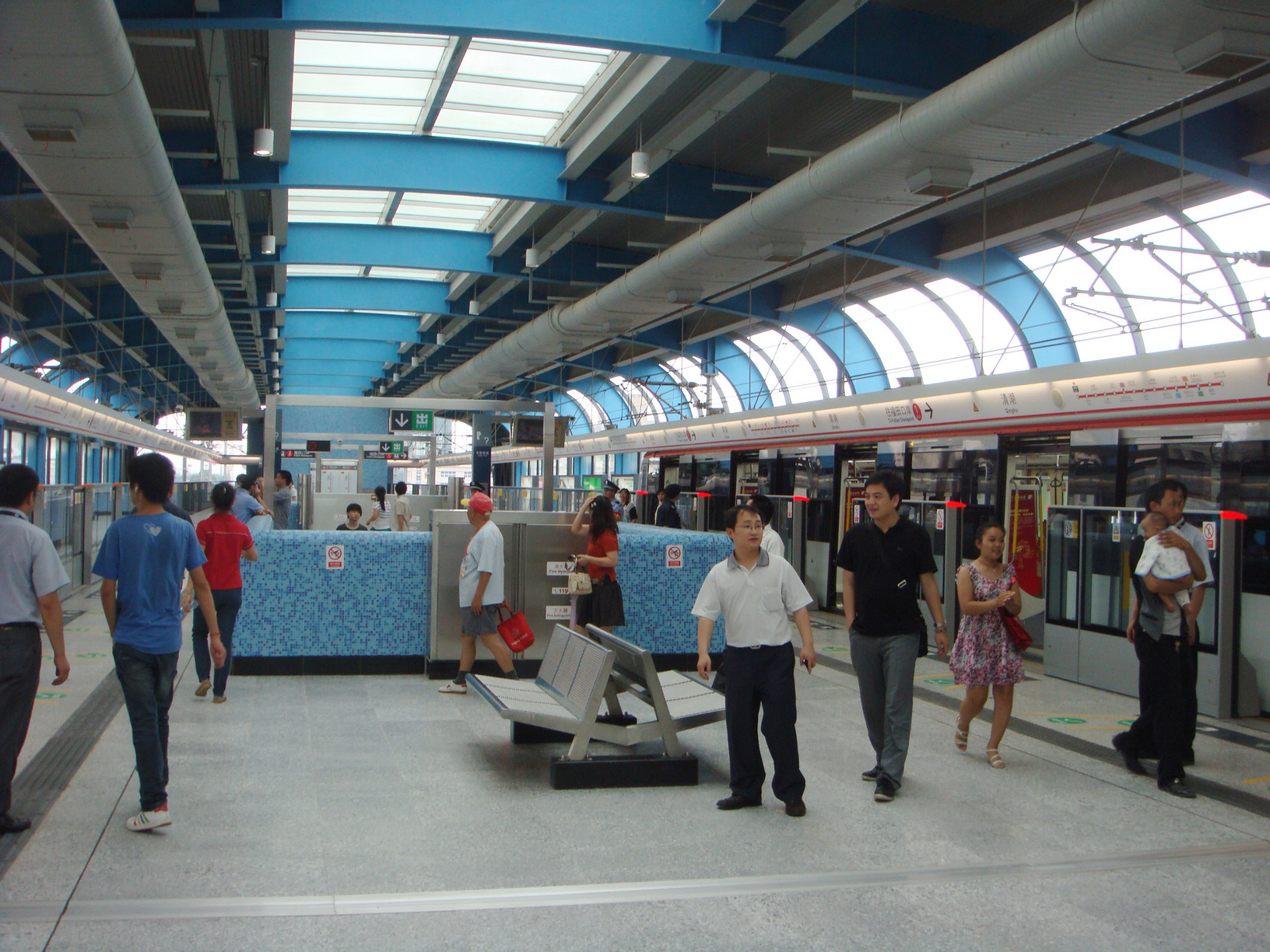 Qinghu Station of Longhua Line, Shenzhen Metro.The train arrived at the terminus.